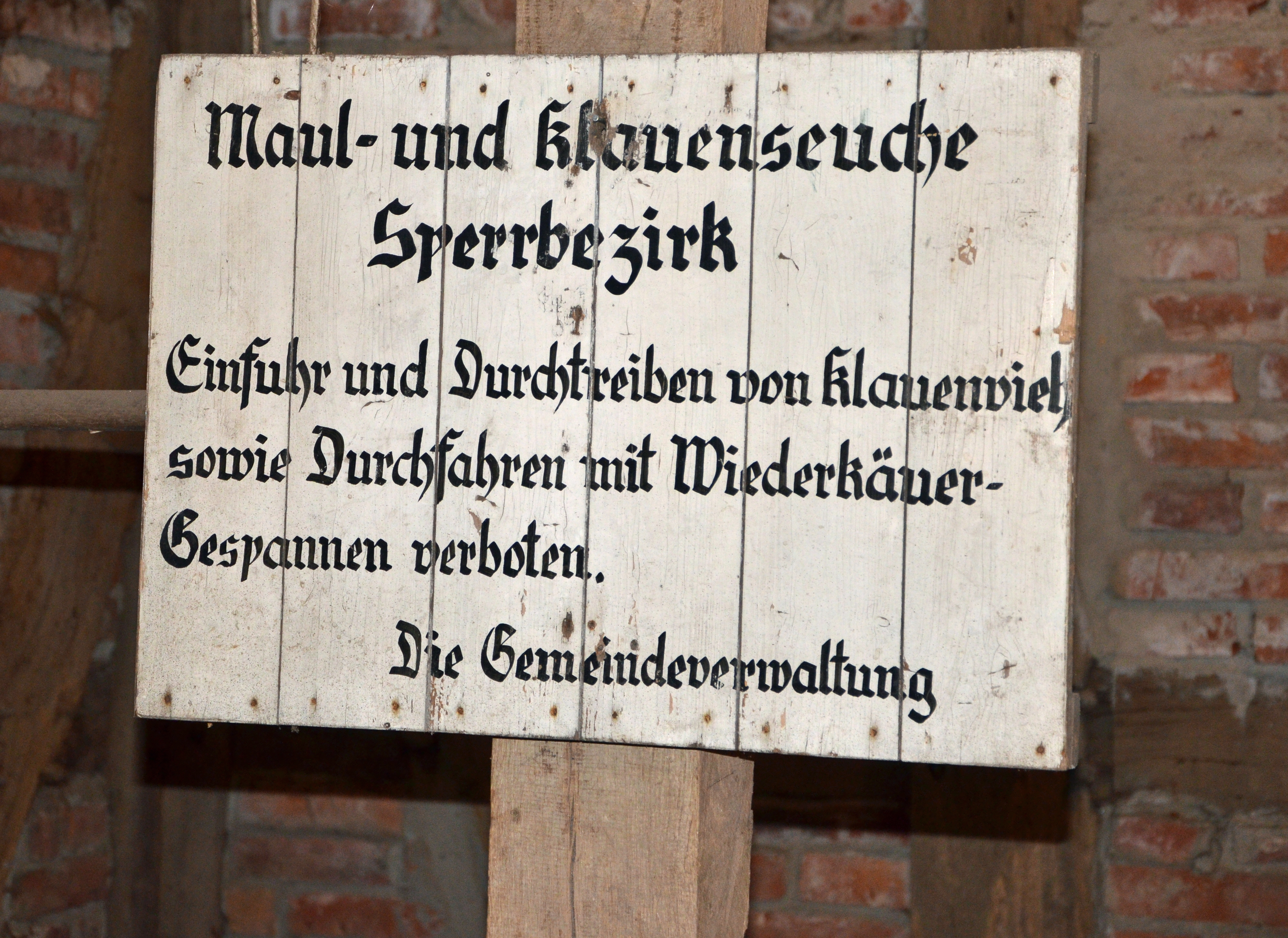 Foot and mouth disease Disease